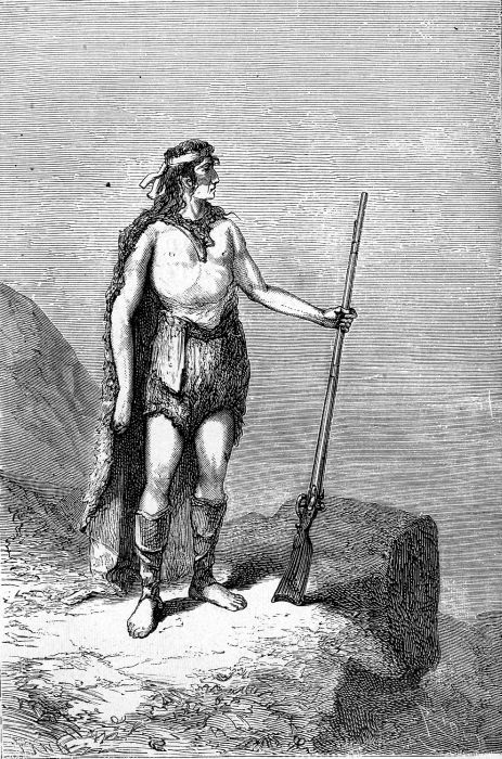 An ilustration from the novel "In Search of the Castaways; or Captain Grant's Children" by Jules Verne drawn by Édouard Riou.